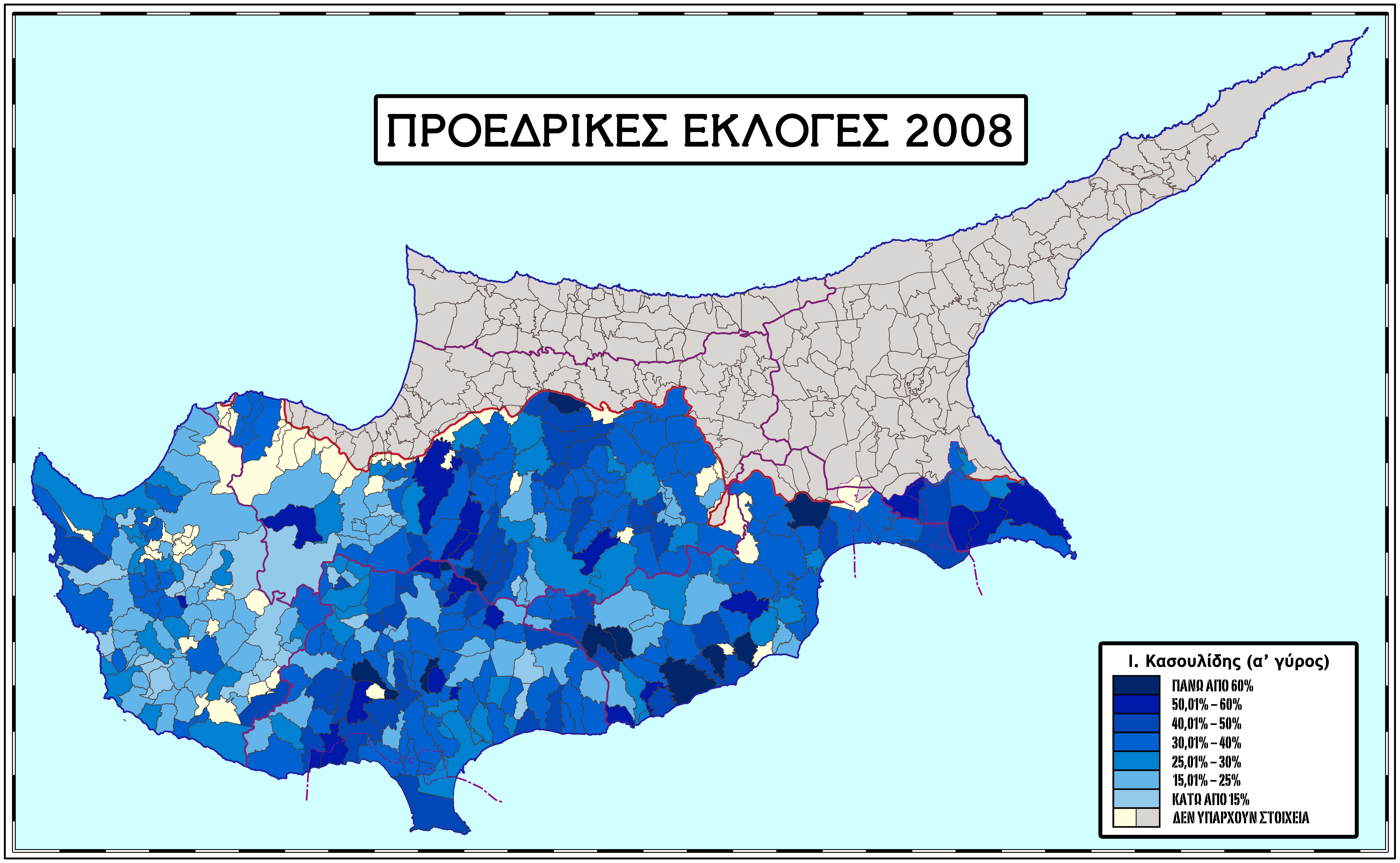 Ioannis Casoulides' percentages during the first round of the presidential elections in Cyprus 2008